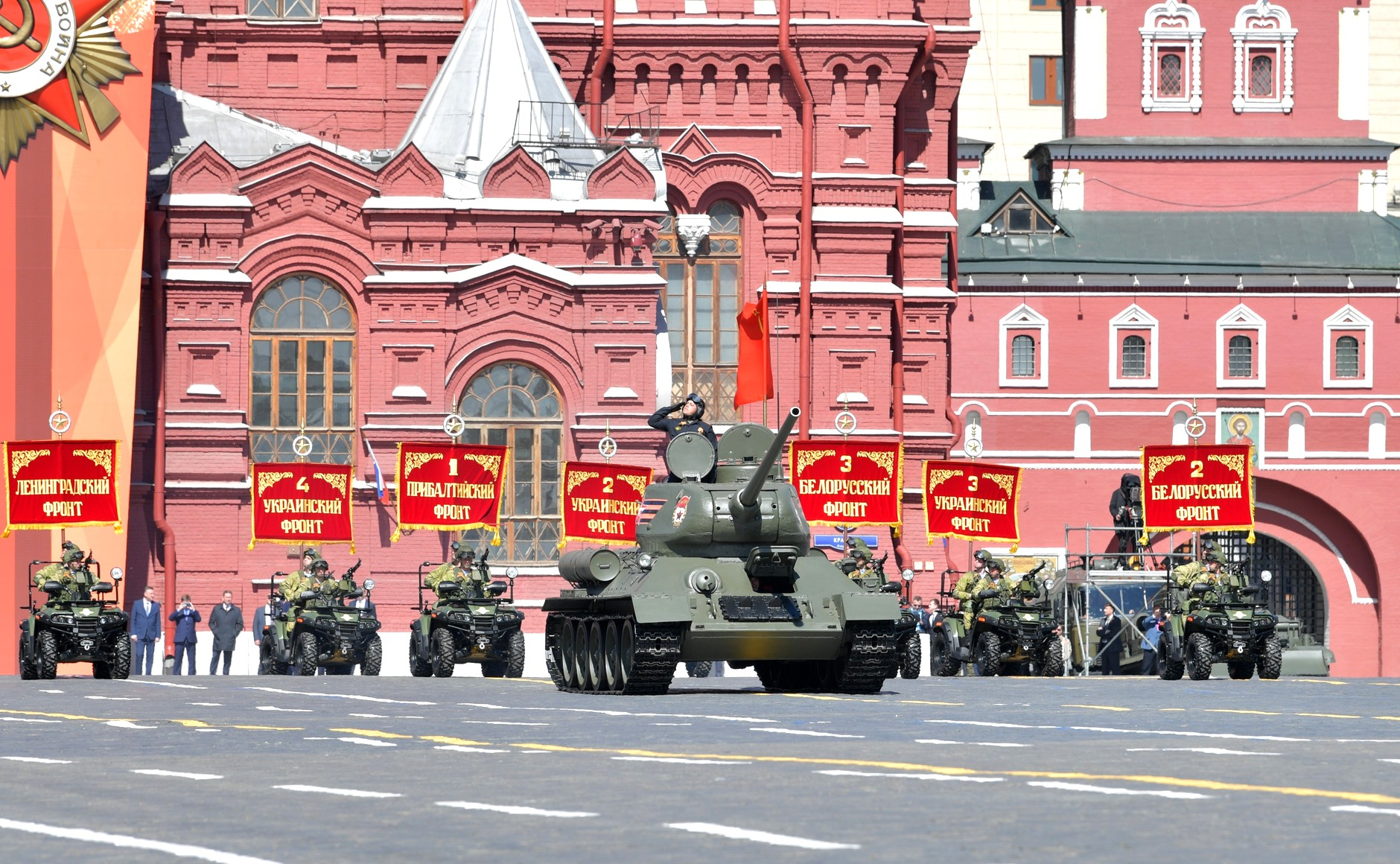 T-34-85 medium tank. 2018 Moscow Victory Day Parade